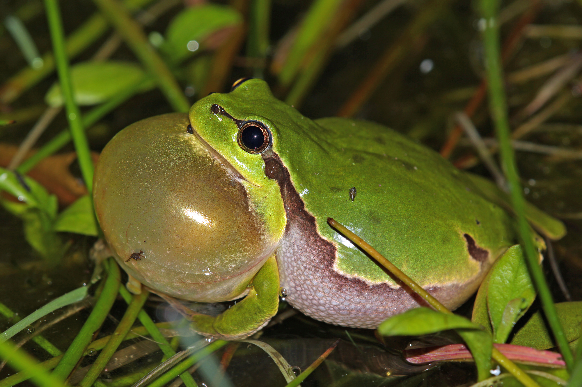 A European Tree Frog (Hyla arborea) – calling male with distended gular vocal sac (photo taken at night). The tree frog is one of the smallest European anurans – but also the loudest. In this case, at least 60 other males were present in the meadow pond, making an "infernal noise".